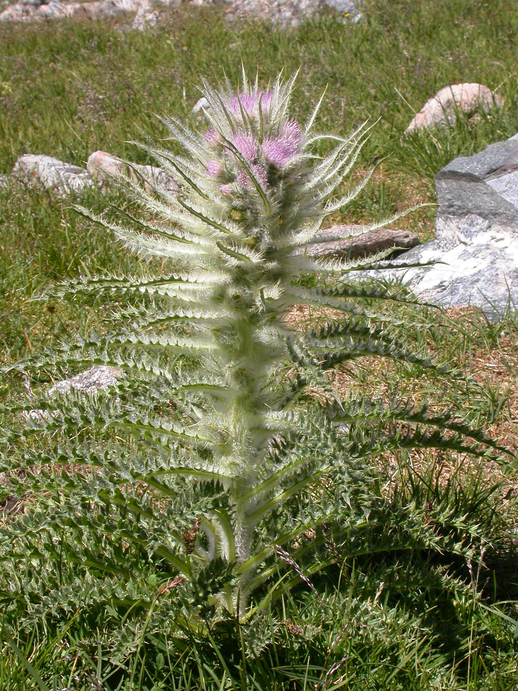 This mountain meadow inhabiting species is generally distinctive in its long copious stem and leaf hairs and inflorescences with congested white to pinkish or light purplish flowering heads that are surrounded by very long stem leaves.